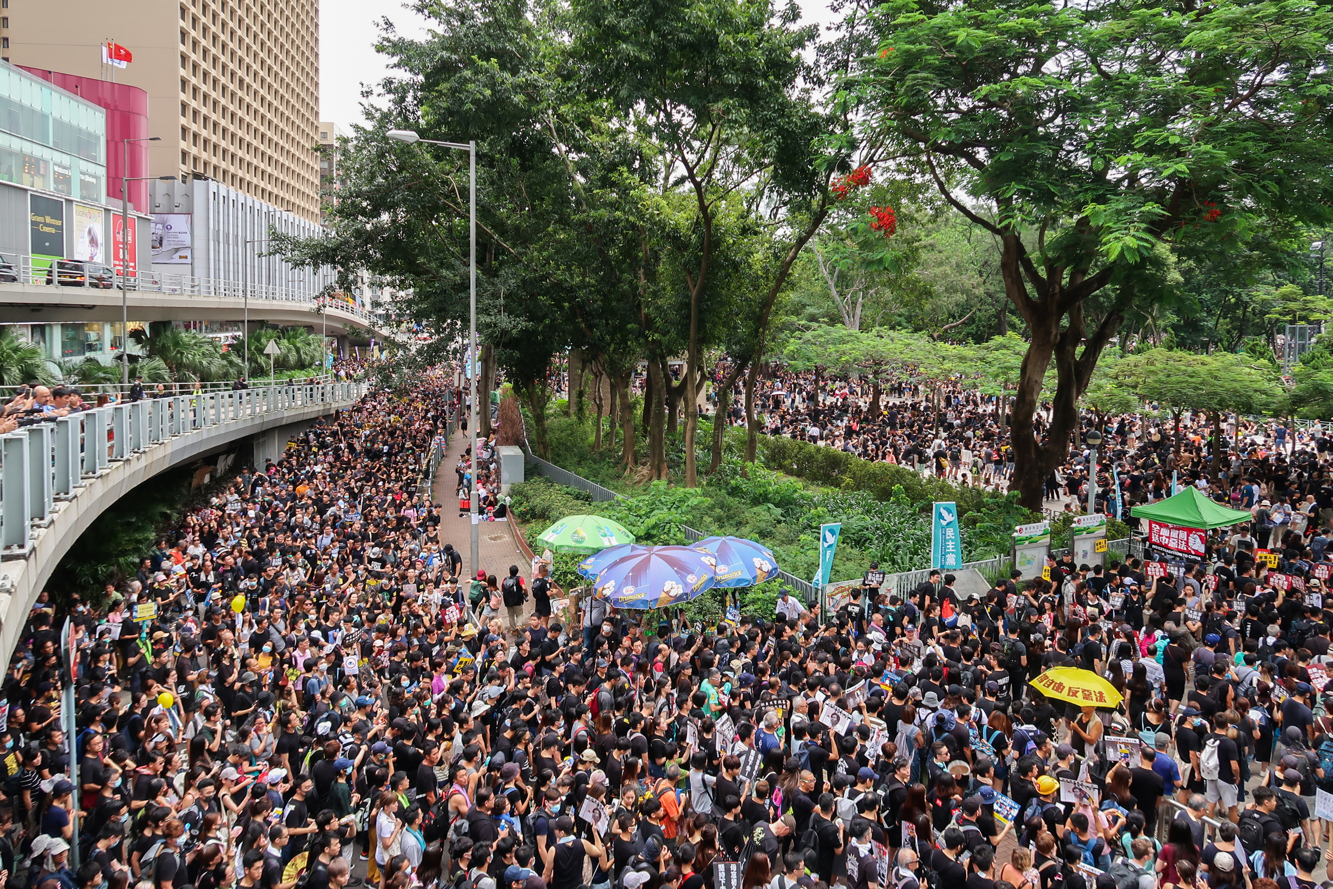 Victoria Park Entrance protester